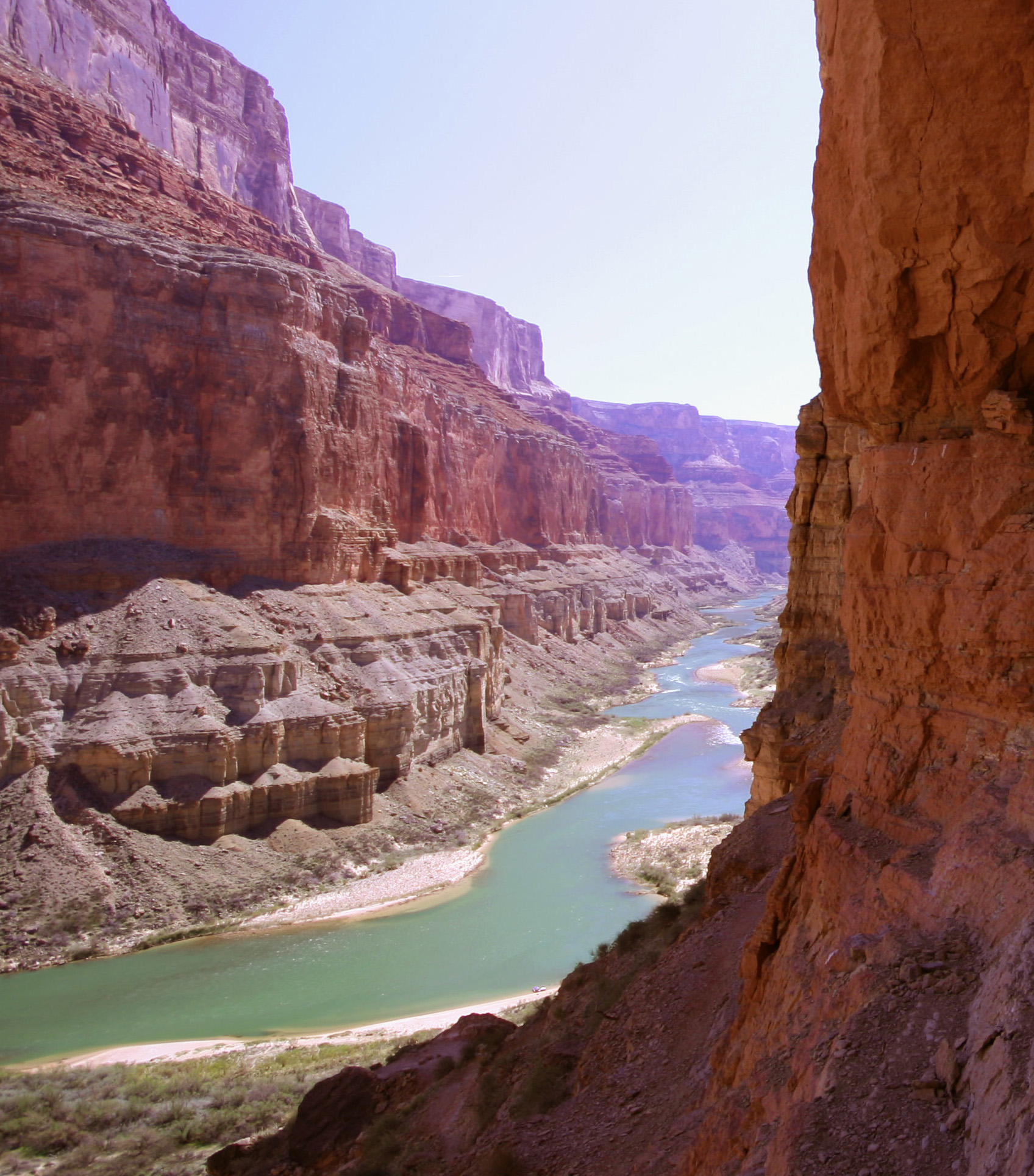 The Colorado River near Nankoweap Creek and the granaries, Grand Canyon. (downstream in Marble Canyon, left bank (South Rim), with (red)-Redwall Limestone-(500 ft) above the (white)-Muav Limestone-(400 of 600 ft), then Colorado River, looking ~southwest, downstream.)